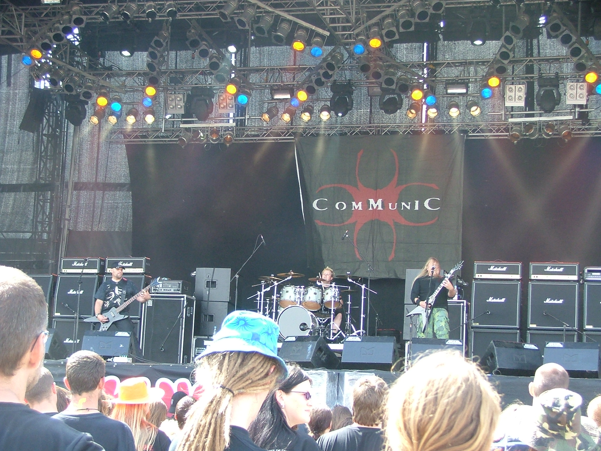 Norwegian progressive metal band Communic at the Summer Breeze in Dinkelsbühl